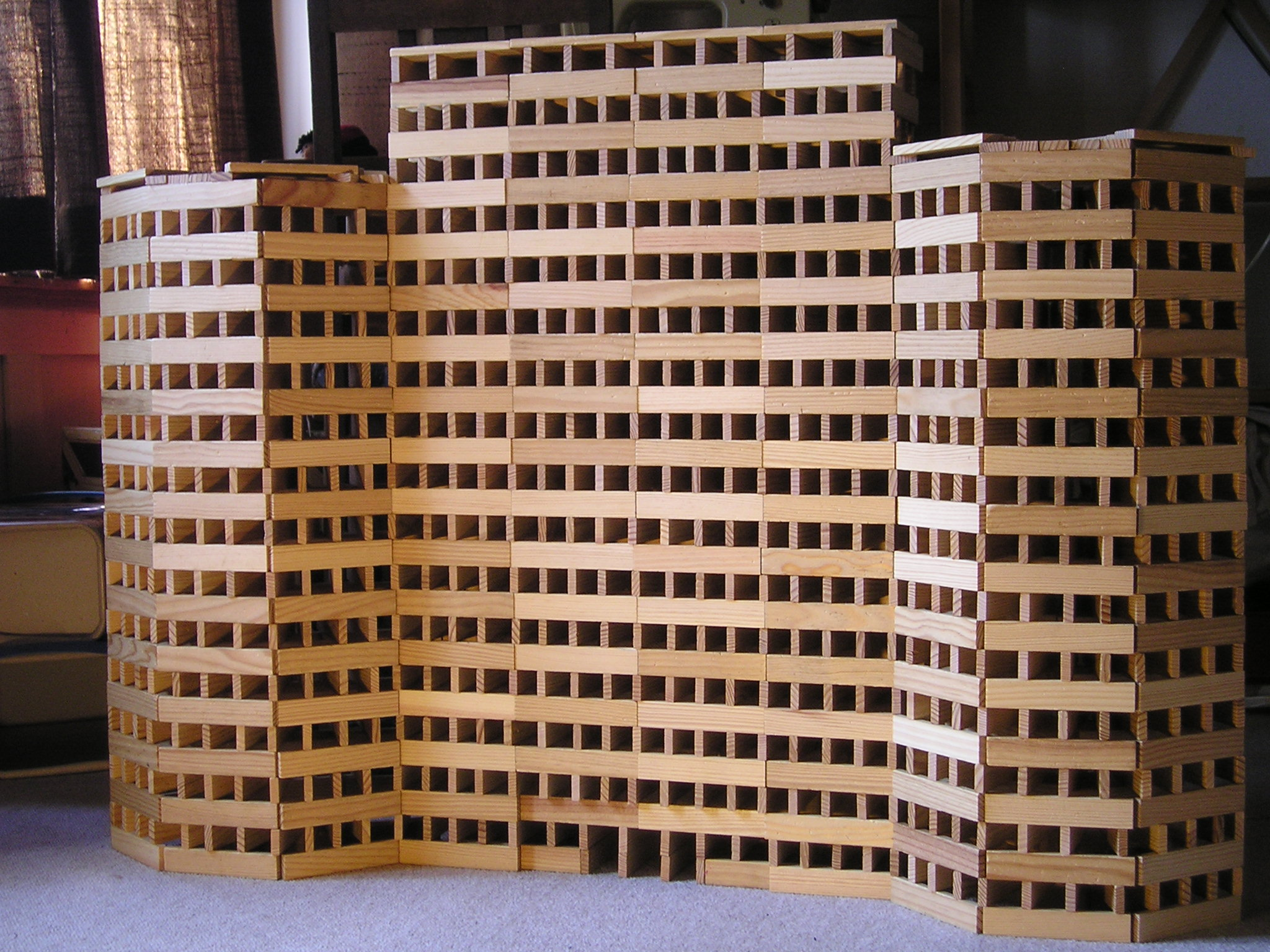 private photography 4.10.2005, Switzerland